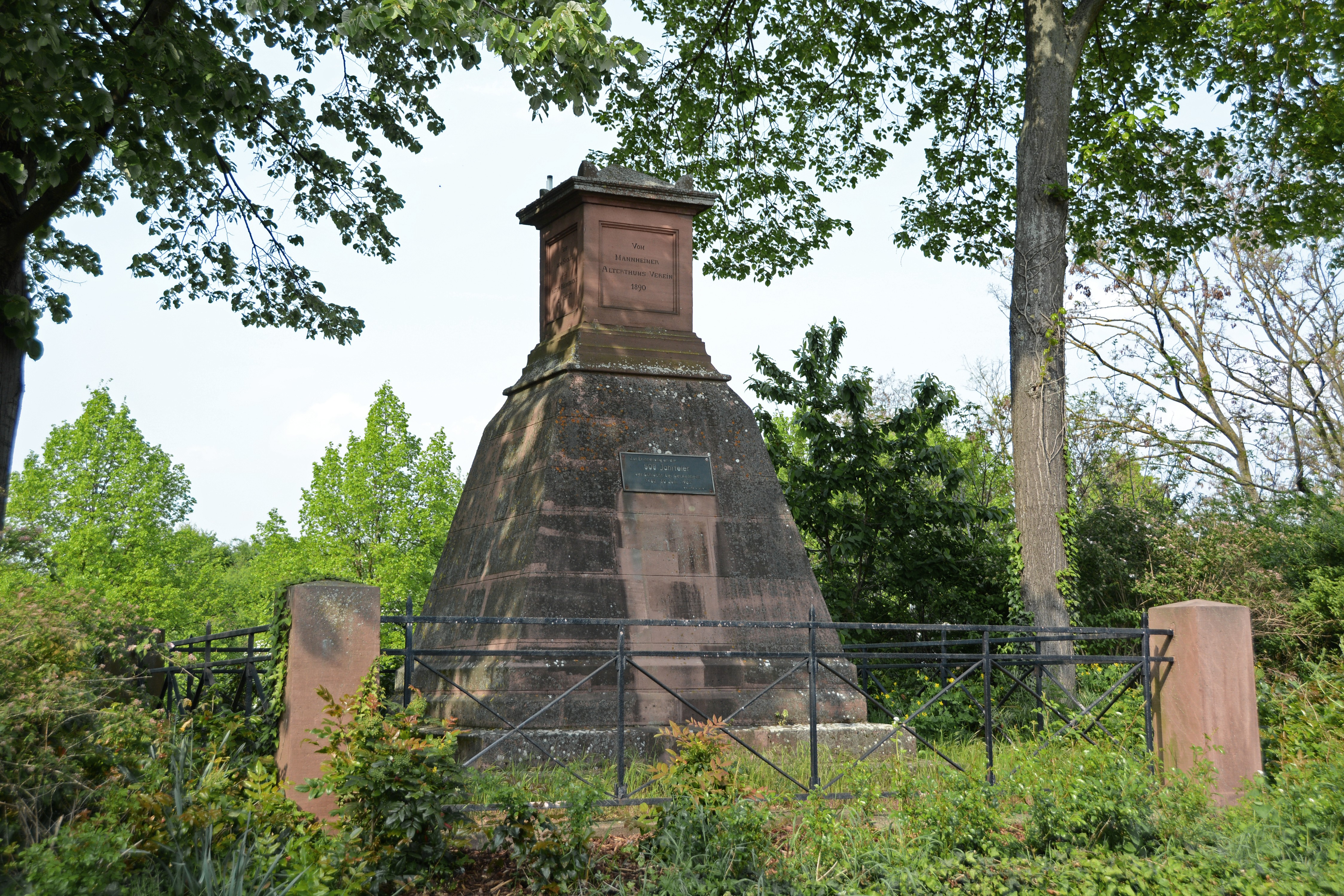 Memorial of the battle of Seckenheim (June 30th 1462), Mannheim-Friedrichsfeld , Germany, view from South